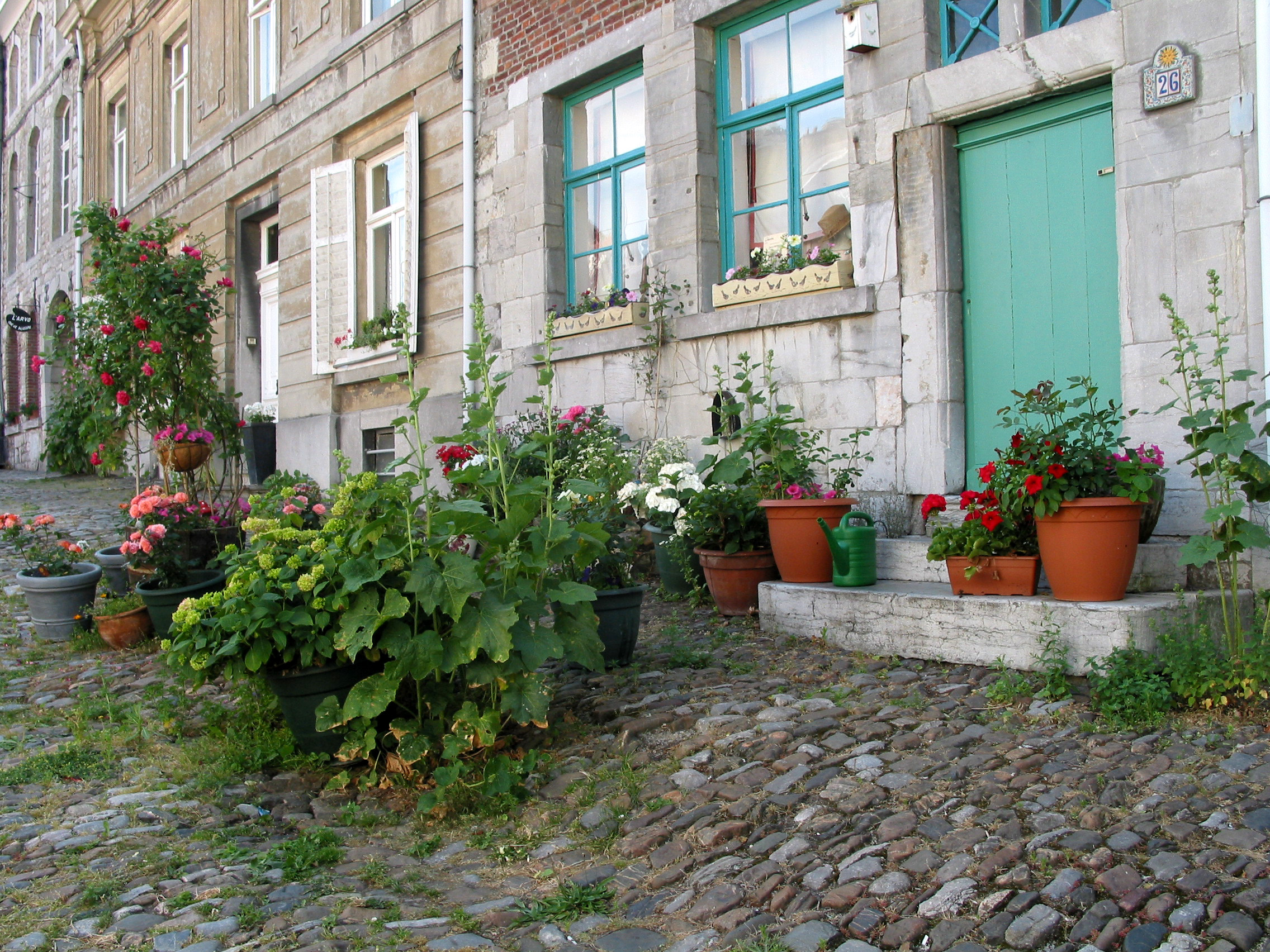 Limbourg (Belgium), typical houses of the St. Georges place.